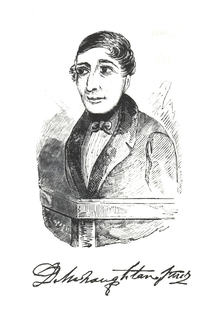 Artist sktech of Daniel McNaughtan and an engraving of his signature.